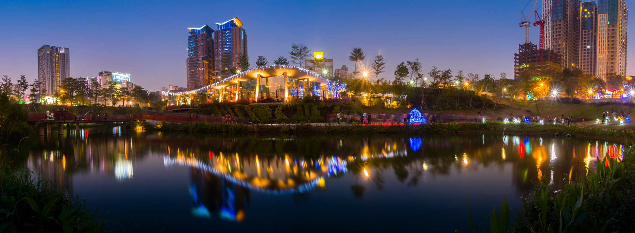 Taiwan Taichung City, Maple Garden